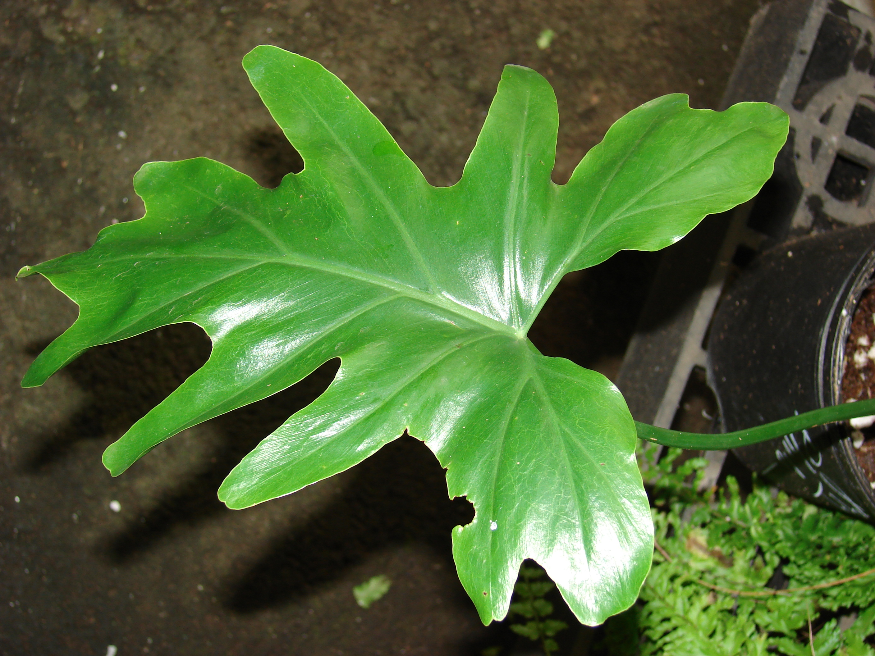 Philodendron sp. (leaf). Location: Maui, Kula Ace Hardware and Nursery